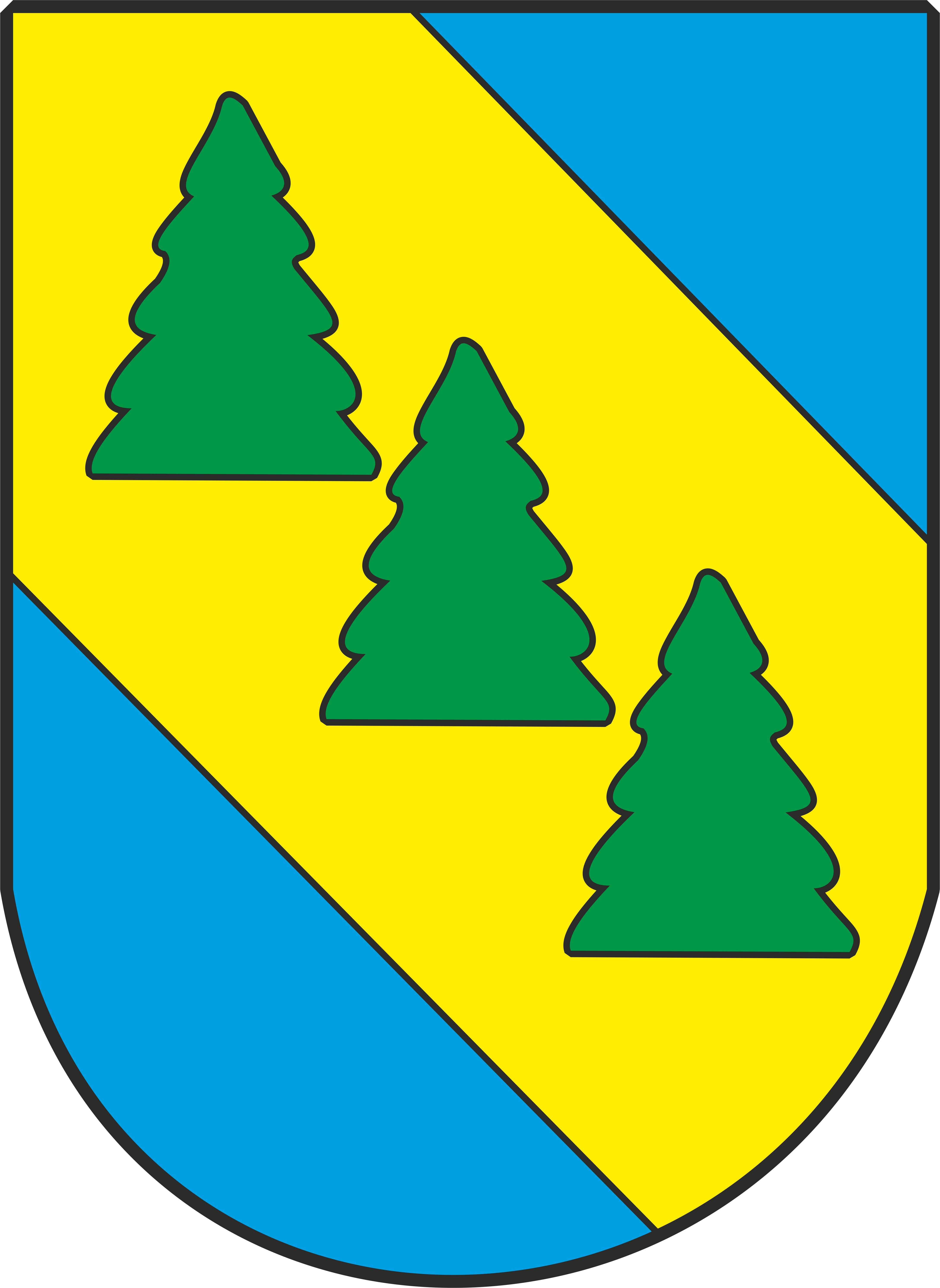 crest Kaliska